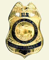 park ranger badge